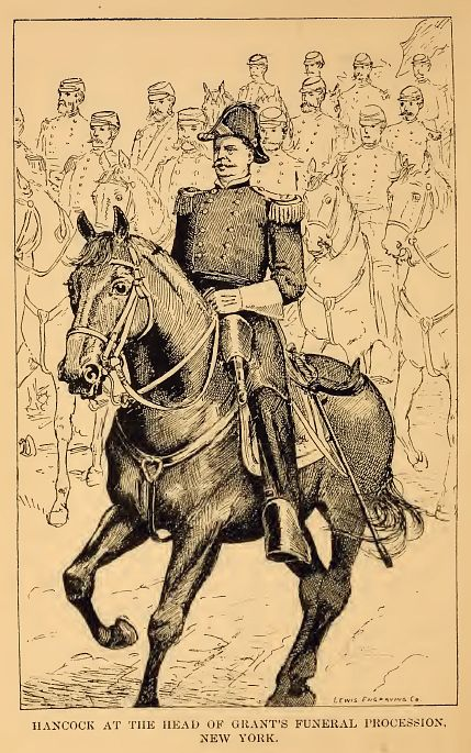 General Winfield Scott Hancock leading Ulysses S Grant's funeral procession